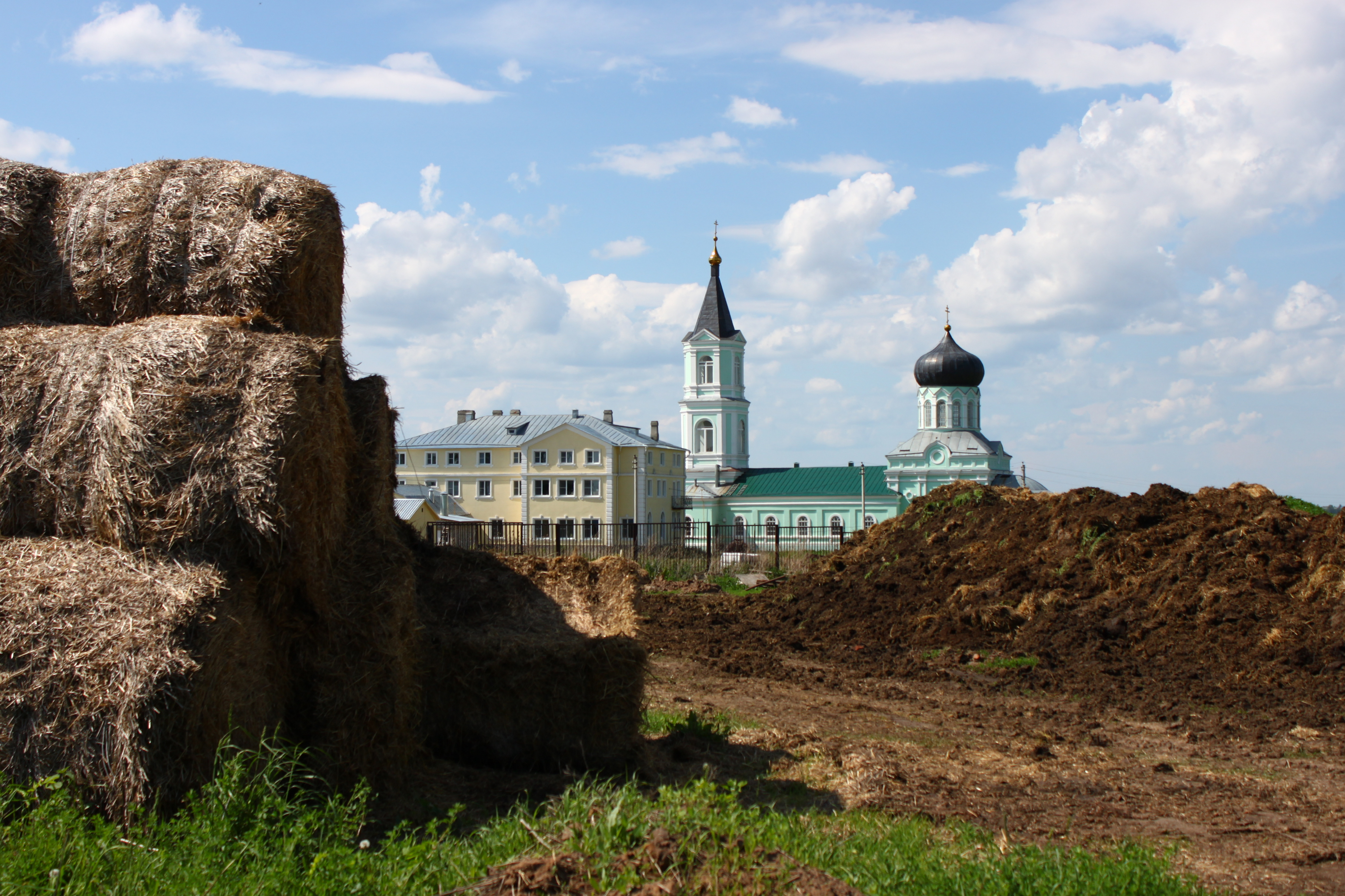 Troitsky Skit from the yard.